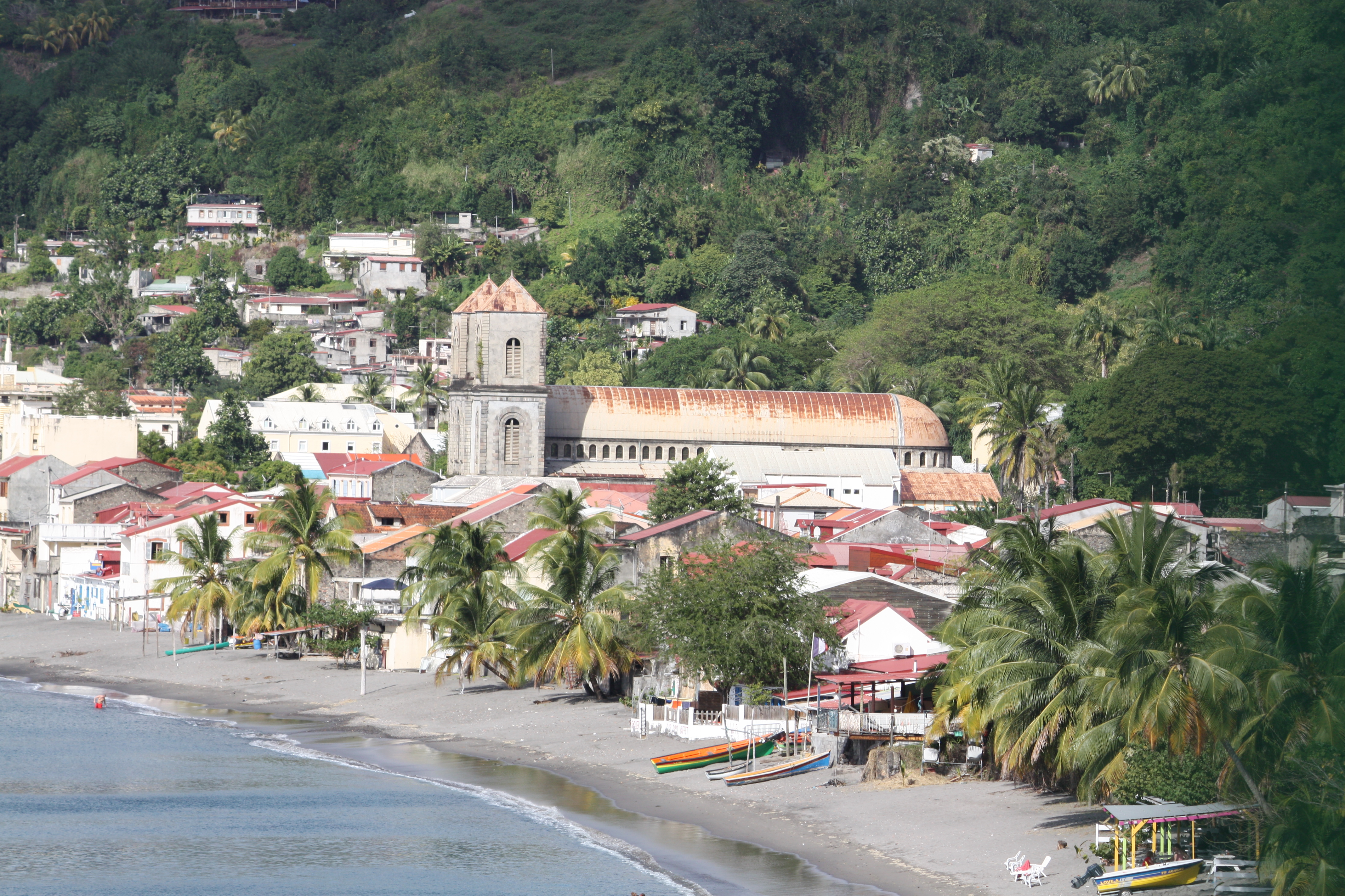 Cathédrale Notre-Dame-de-l'Assomption in Saint-Pierre, Martinique